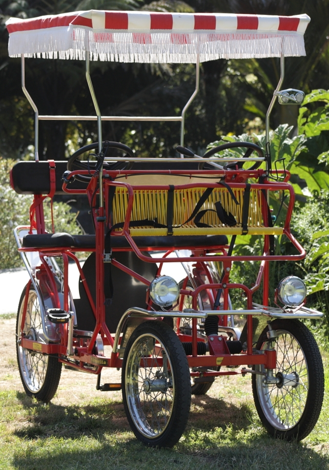 Ciclofan Sirenetta quadricycle.